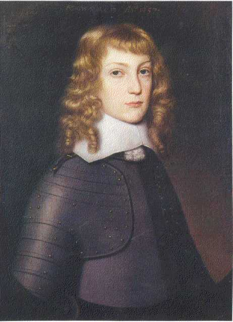 Portrait of Christian Ernst, Margrave of Brandenburg-Bayreuth (1644-1712) as a young man